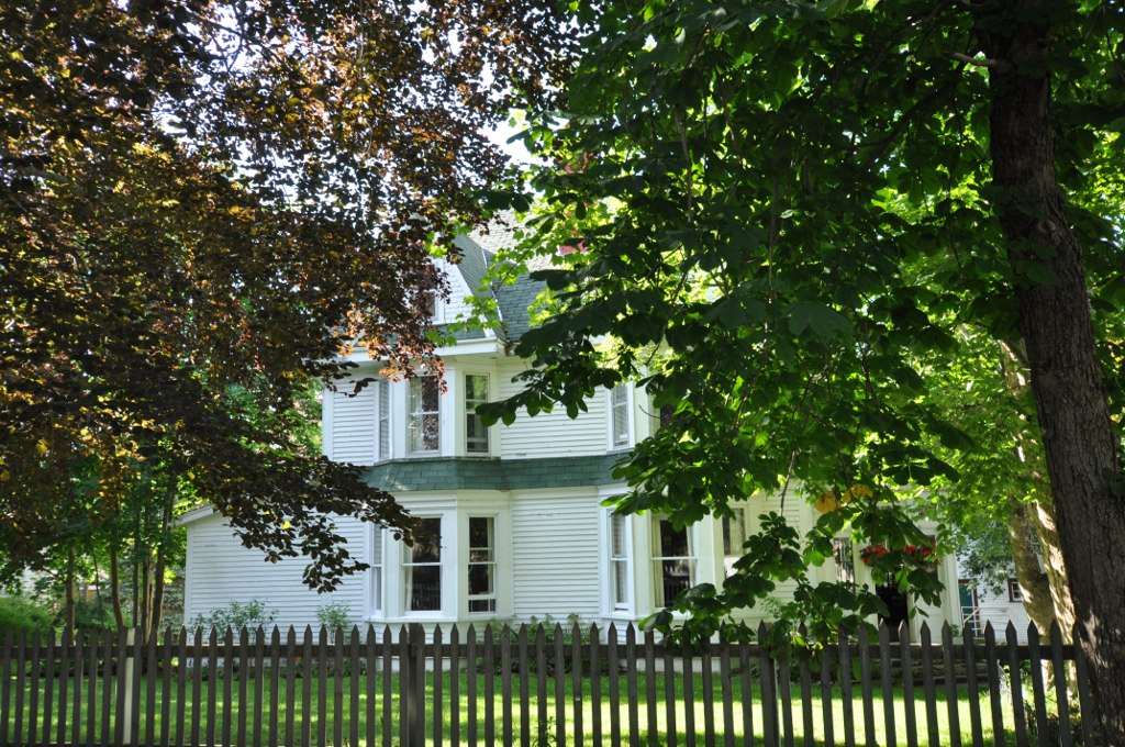 Powell House, Carbonear, Newfoundland.